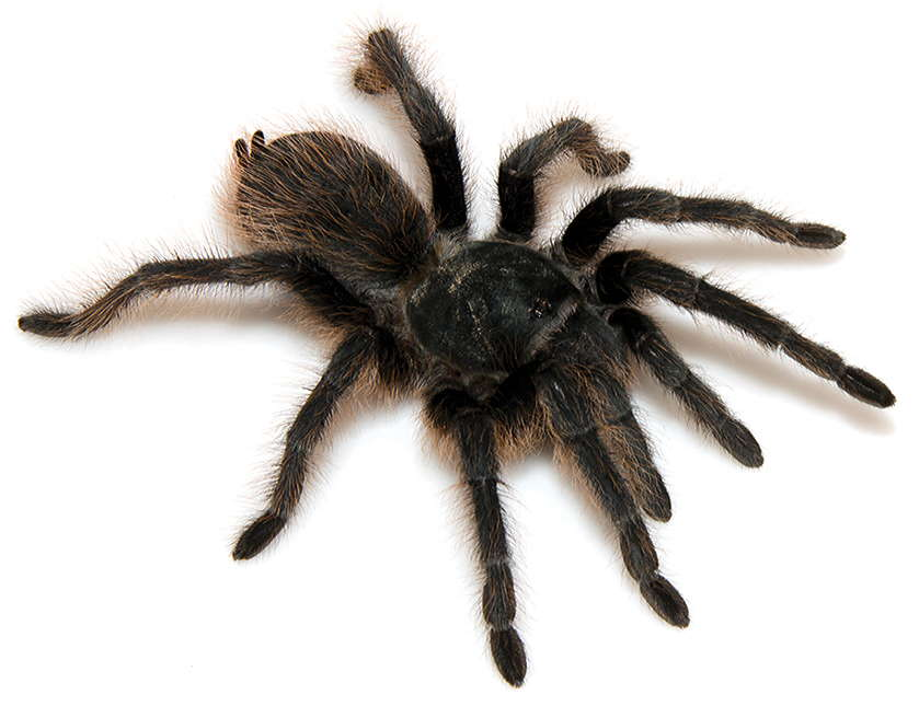 Aphonopelma catalina female